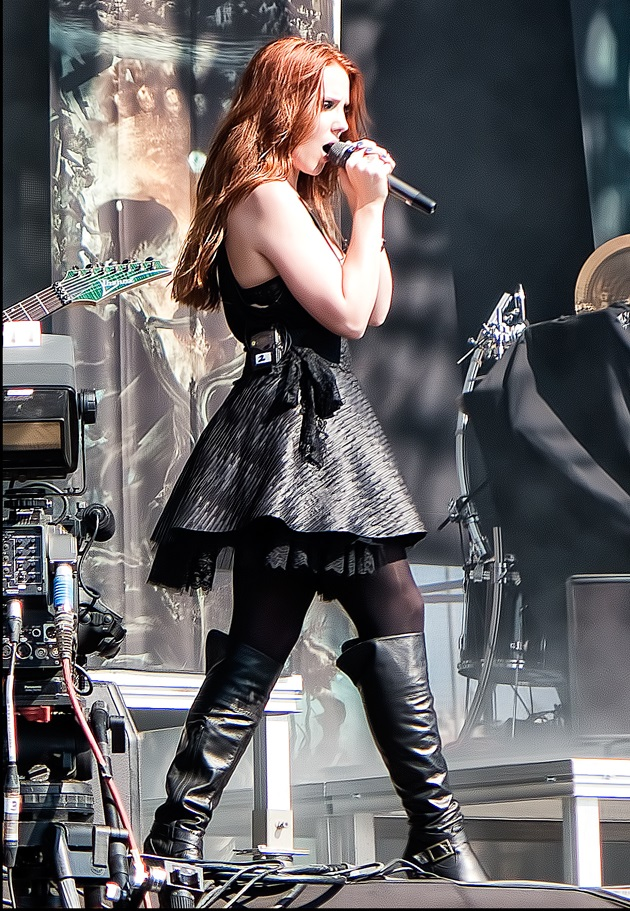 Simone Simons performing with Epica, live Santa Coloma in 2014